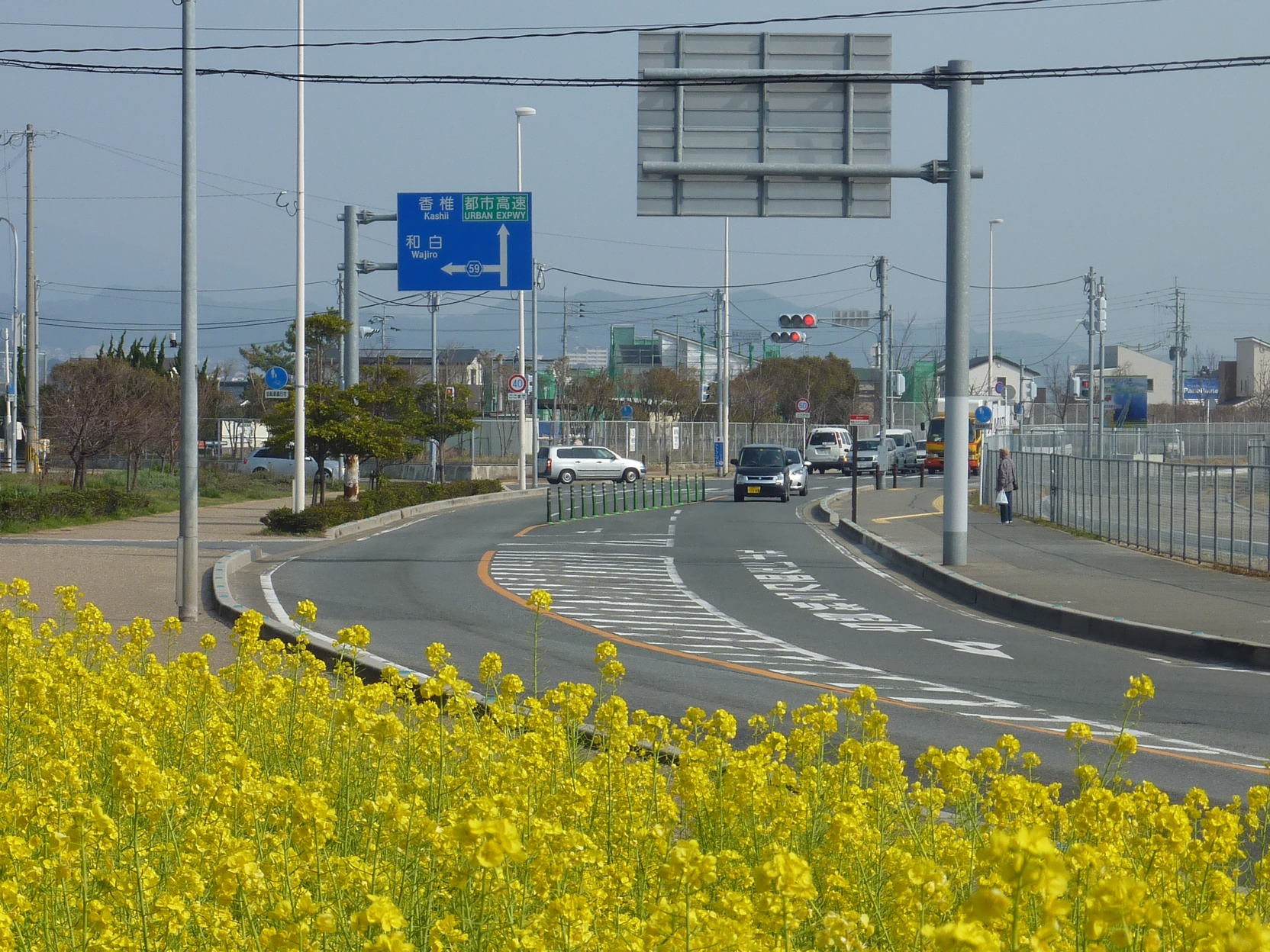 Fukuoka Prefectural Road No.59 Shikanoshima-Wajiro Line (Gannosu, Higashi-ku, Fukuoka City, Japan)